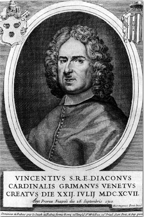 Portrait of Cardinal Vincenzo Grimani (1655-1710). Published in Rome during the late 18th century thus in public domain by virtue of age.